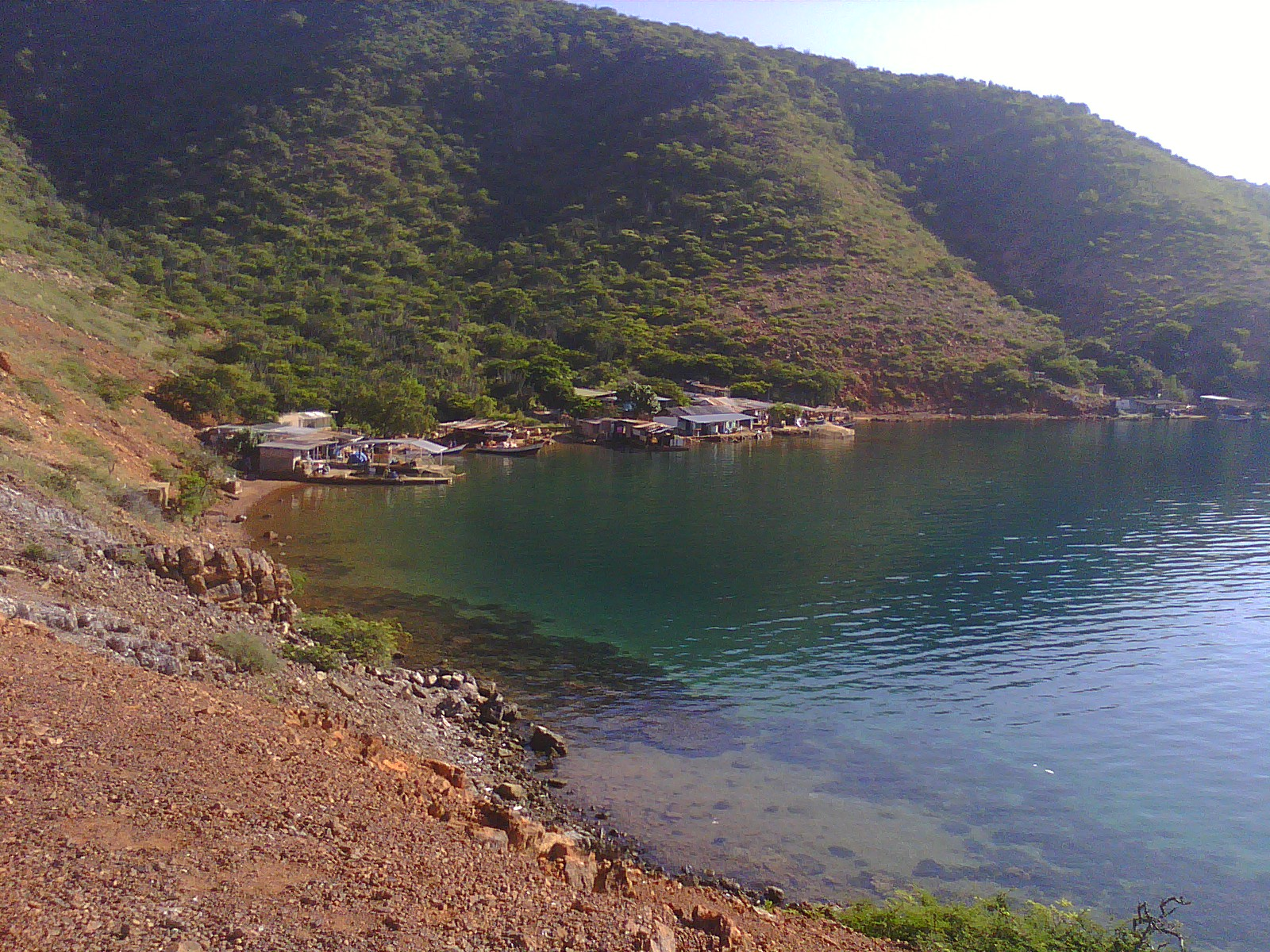 The Isla Caracas. Sucre, Mochima National Park. Venezuela.